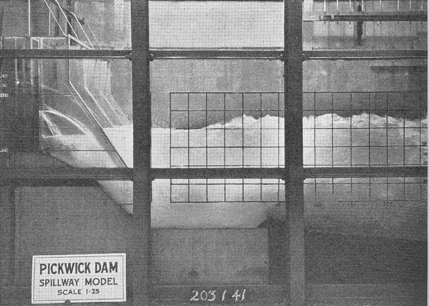 1:25 scale model laboratory testing of Pickwick Landing Dam's spillway.